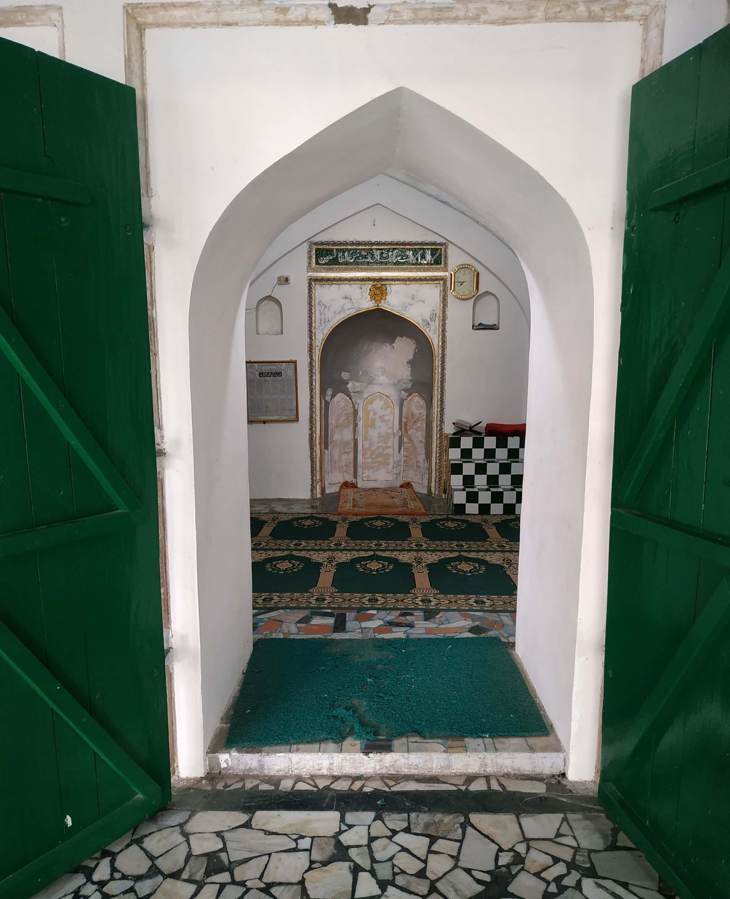 Syed shah jamal aulia's Mosque (rah.)